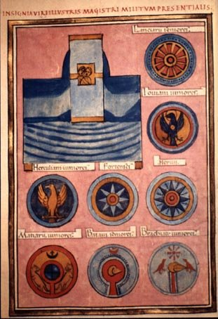 Magister Magister Praesentalis I page 1 from Notitia dignitatum 1° row 2° row 3° row 4° row